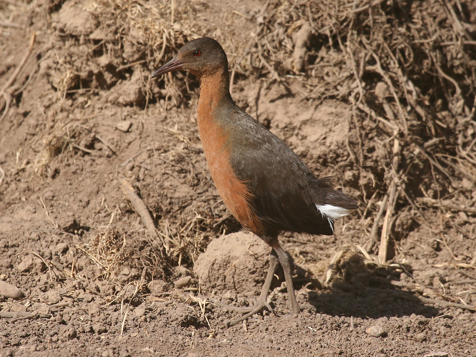 Rouget's rail photographed in Bale mountains